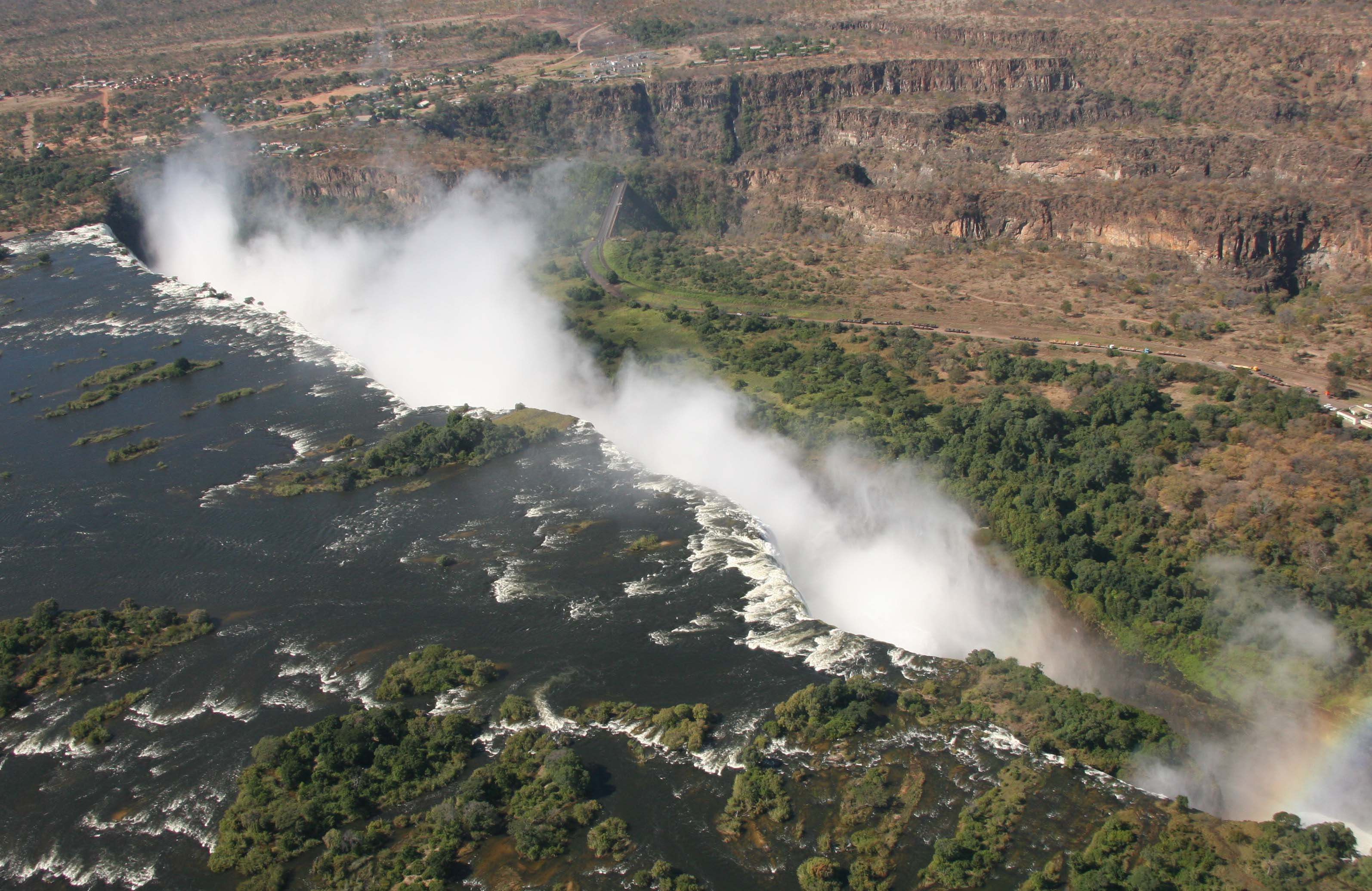 "The smoke that thunders". Aerial perspective of Victoria Falls, the worlds greatest curtain of falling water. Photo taken from a helicopter in May 2007, Zambia.